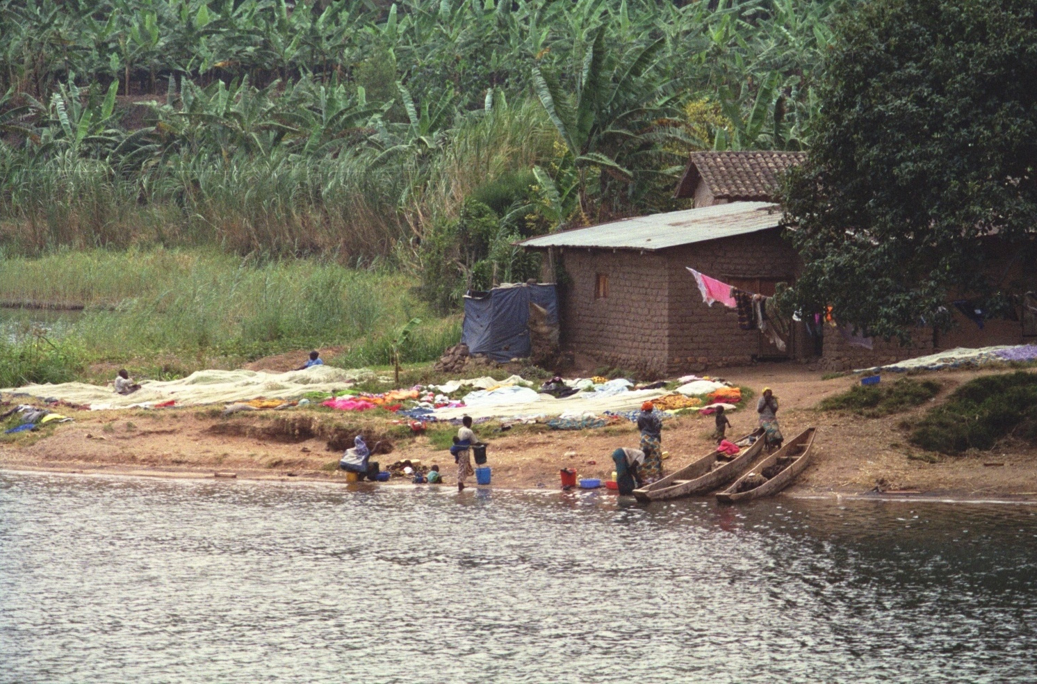 Gorillas, Lake Kivu, Ruhengeri, Rwanda